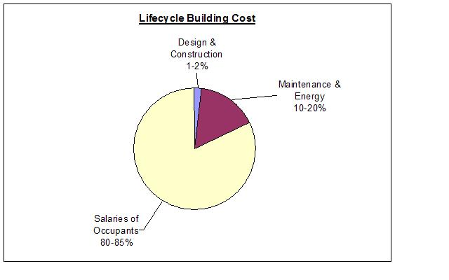 Ethnicity